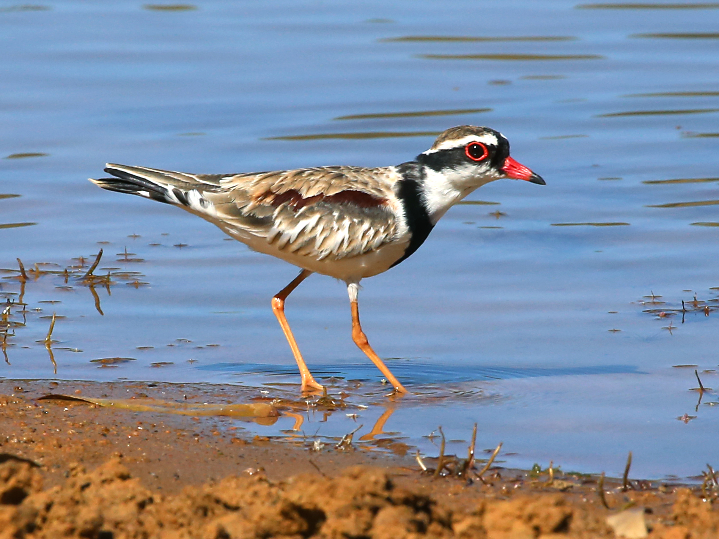 Black-fronted dotterel (Elseyornis melanops) at Emu Creek, north Queensland, Australia.